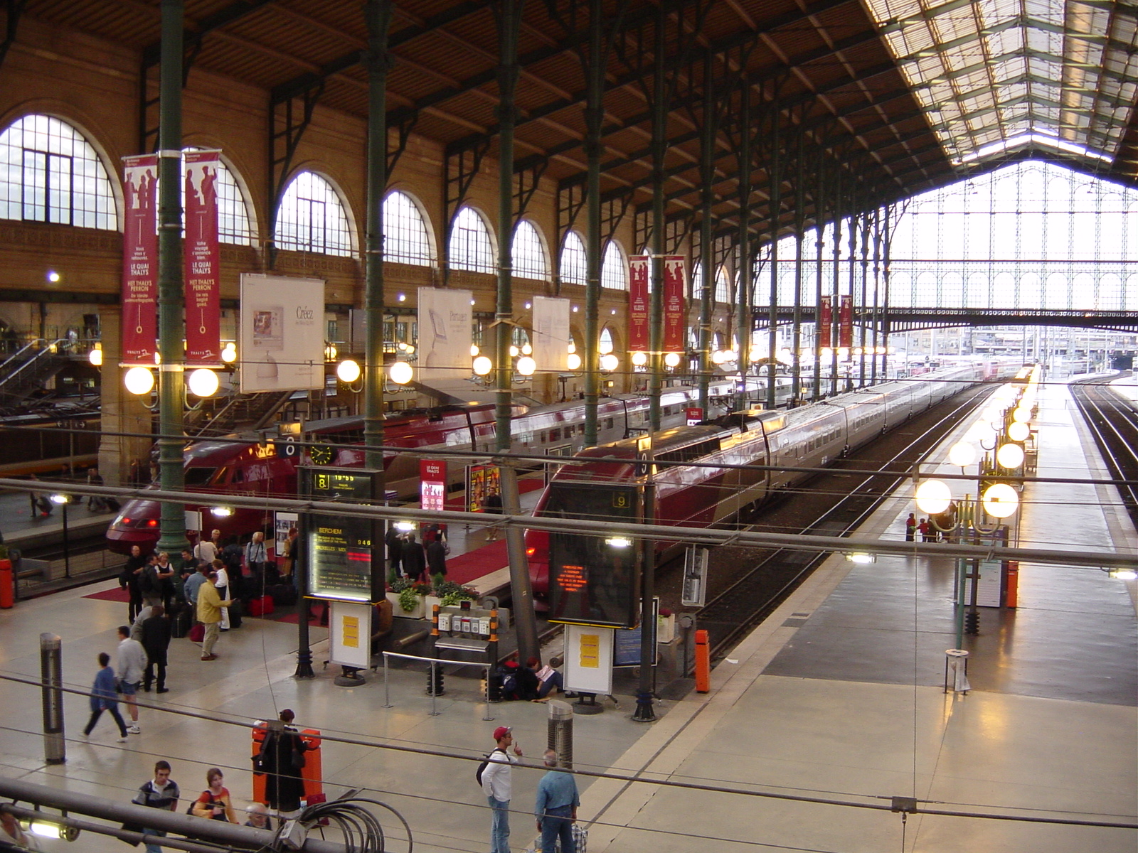 train station in Paris